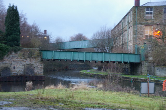 Leeds & liverpool Canal Finsley Gate, Burnley. Taken from old boatyard looking NW towards The Weavers Triangle